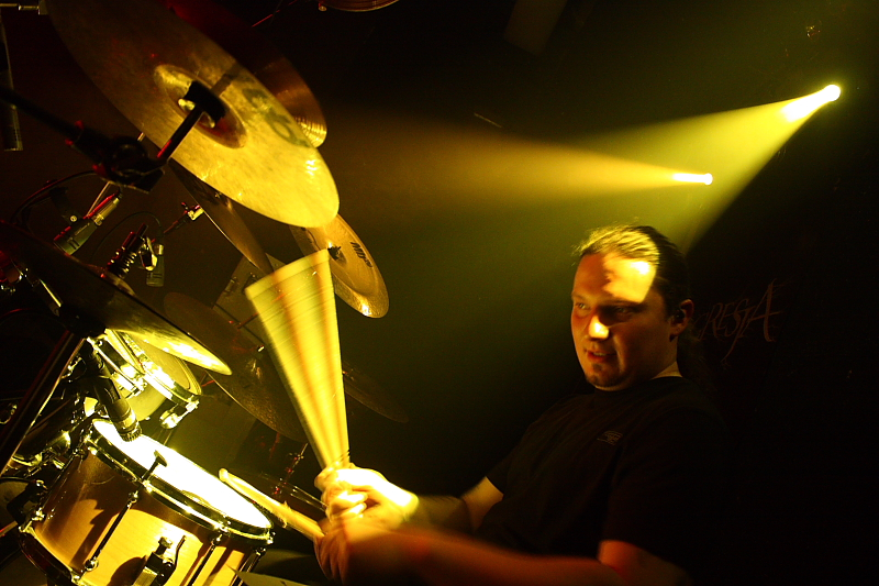 Dariusz Daray Brzozowski with heavy metal band Hunter (Warszawa, club Pogresja)